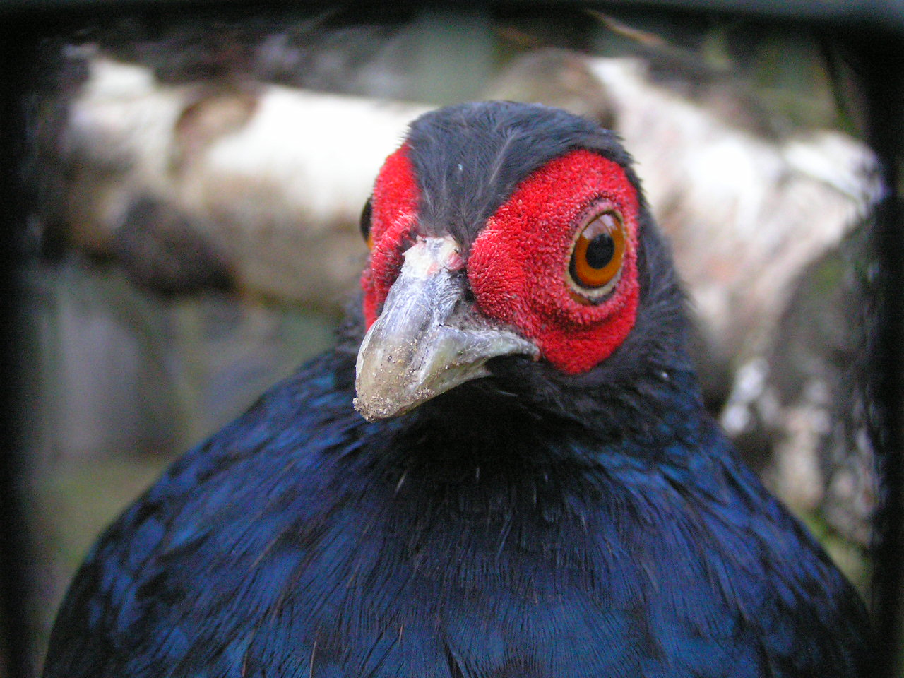 Salvadori's Pheasant Lophura inornata, Antwerp Zoo.close